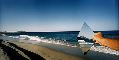 VISTA, Mexico, 1996